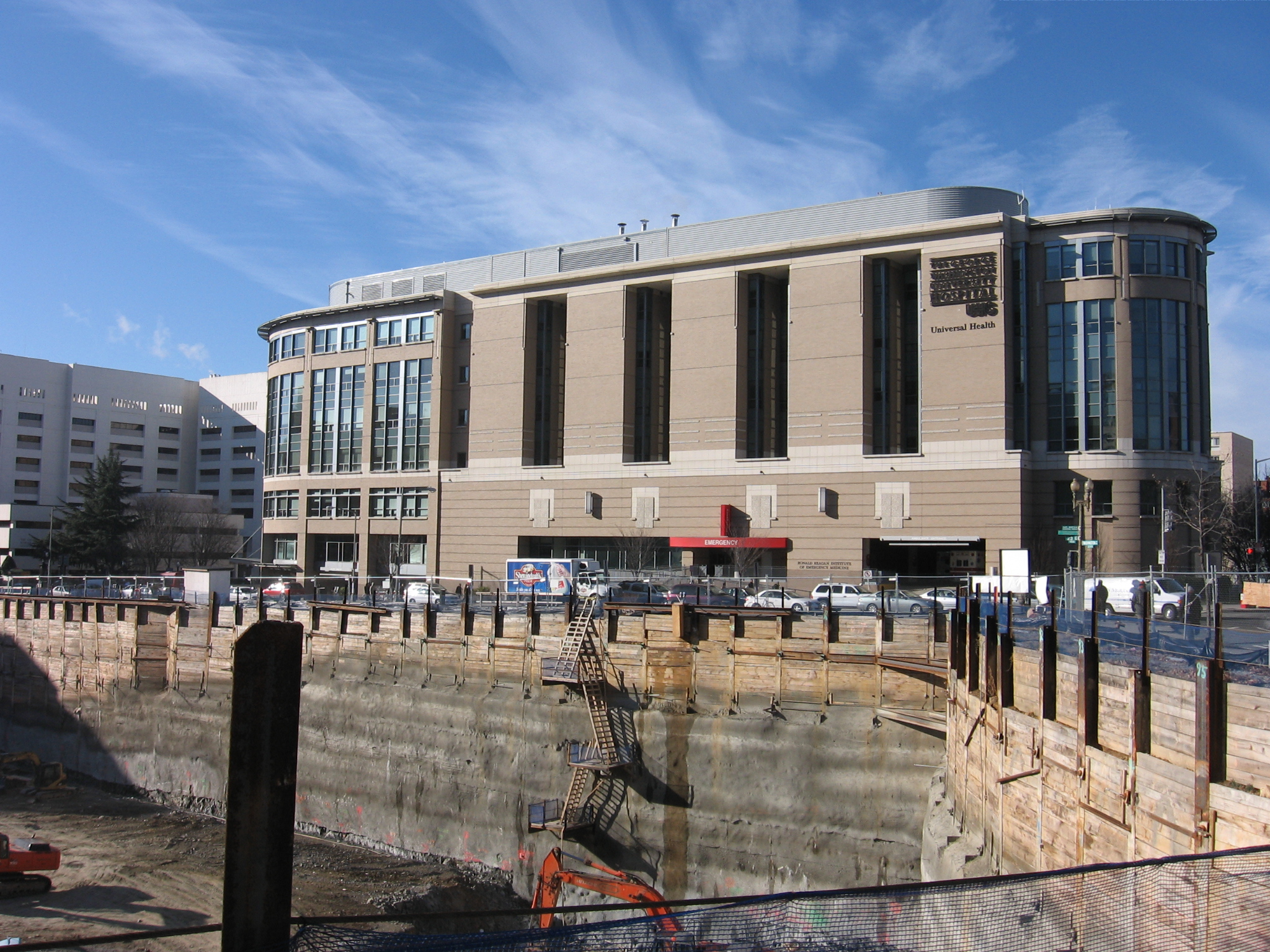 George Washington University - Foggy Bottom